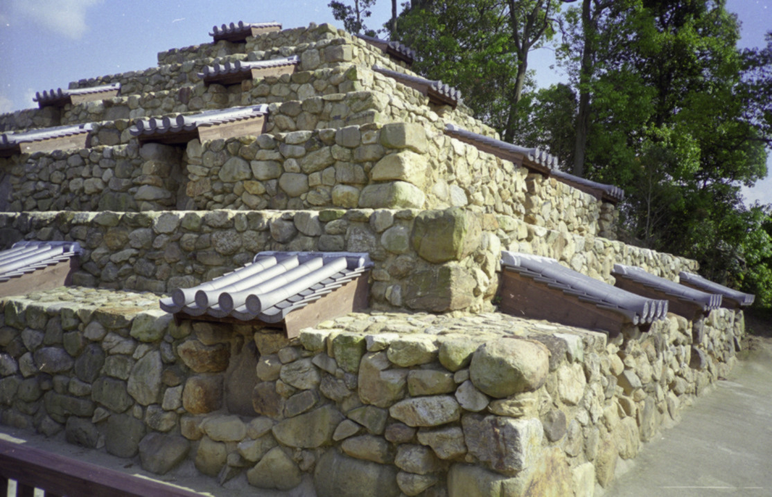 Zutoh is a 8th-century Mahayana Buddhist monument in NARA-city, japan. The monument comprises seven square platforms, and is decorated with 22 relief panels. Height about 10m.